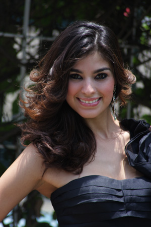 Miss Mexico 2008 Anagabriela Espinoza during Miss World 08 in Johannesburg